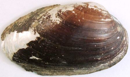 Shell of Unio crassus from the Netherlands